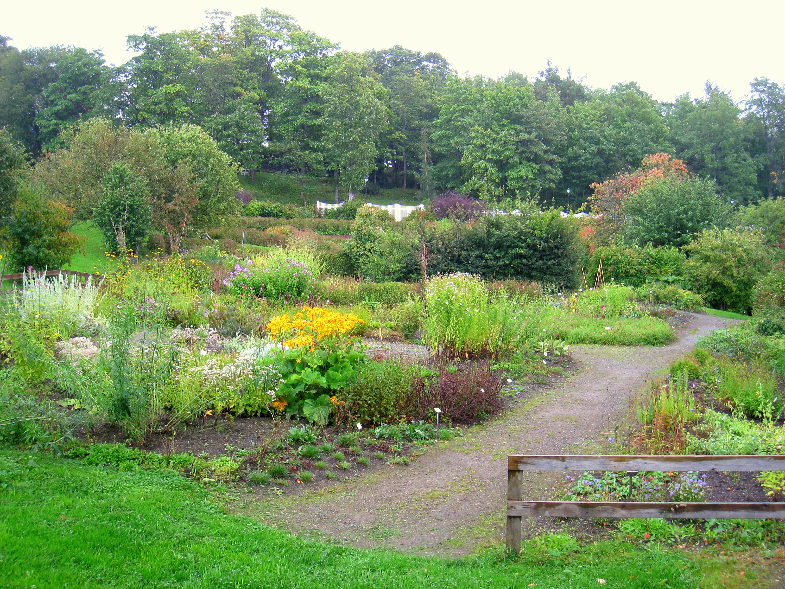 Botanical garden at the Ringve Museum, Trondheim, Norway.